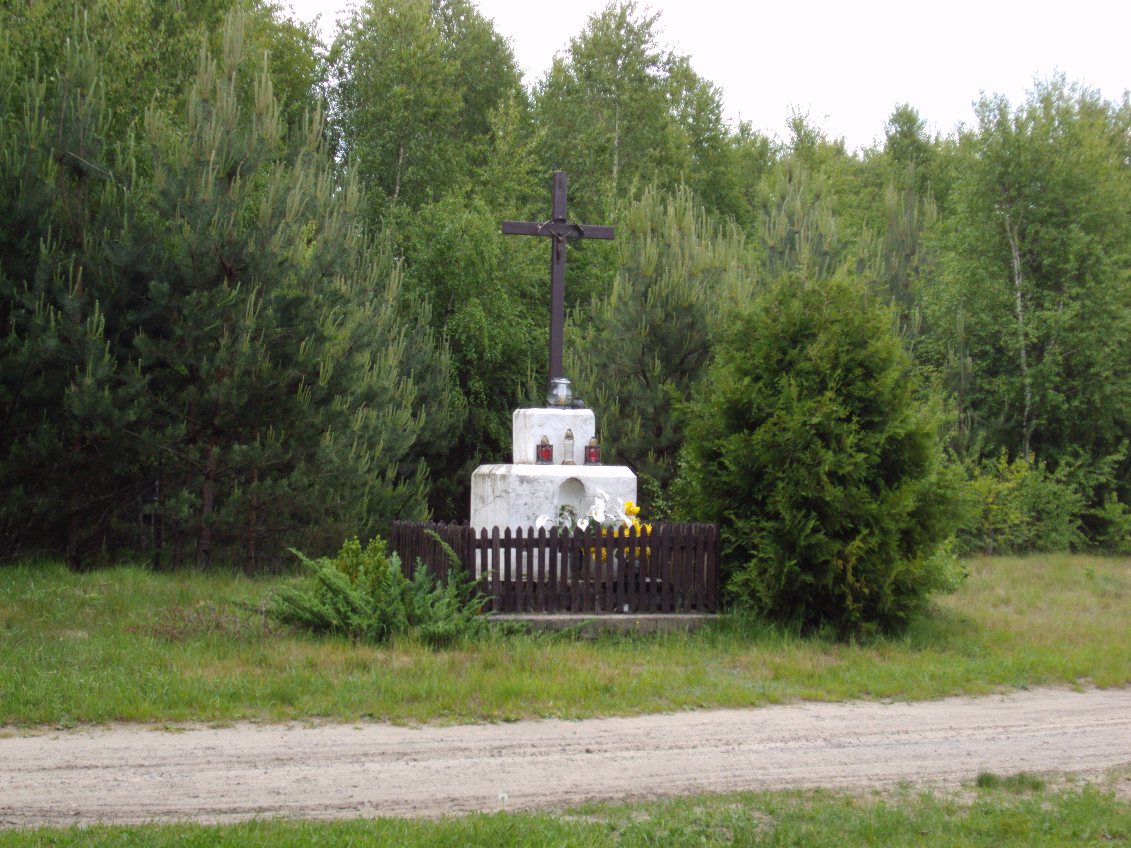 Kamińsko. Przydrożna kapliczka.